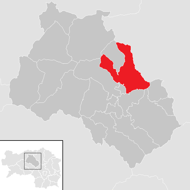 District Leoben